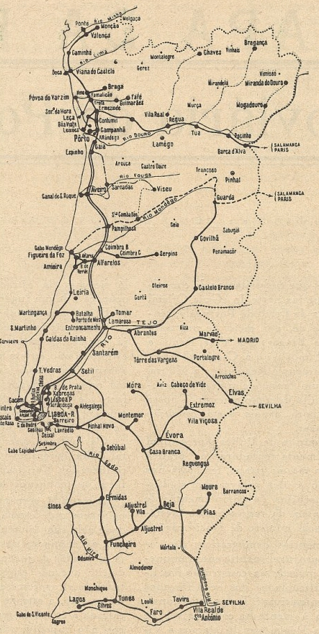 Map of the portuguese railway network, in the middle of the 20th century. This image was published on the Gazeta dos Caminhos de Ferro magazine no. 1369, of the 1st January 1945, and scanned by the Hemeroteca Municipal de Lisboa.